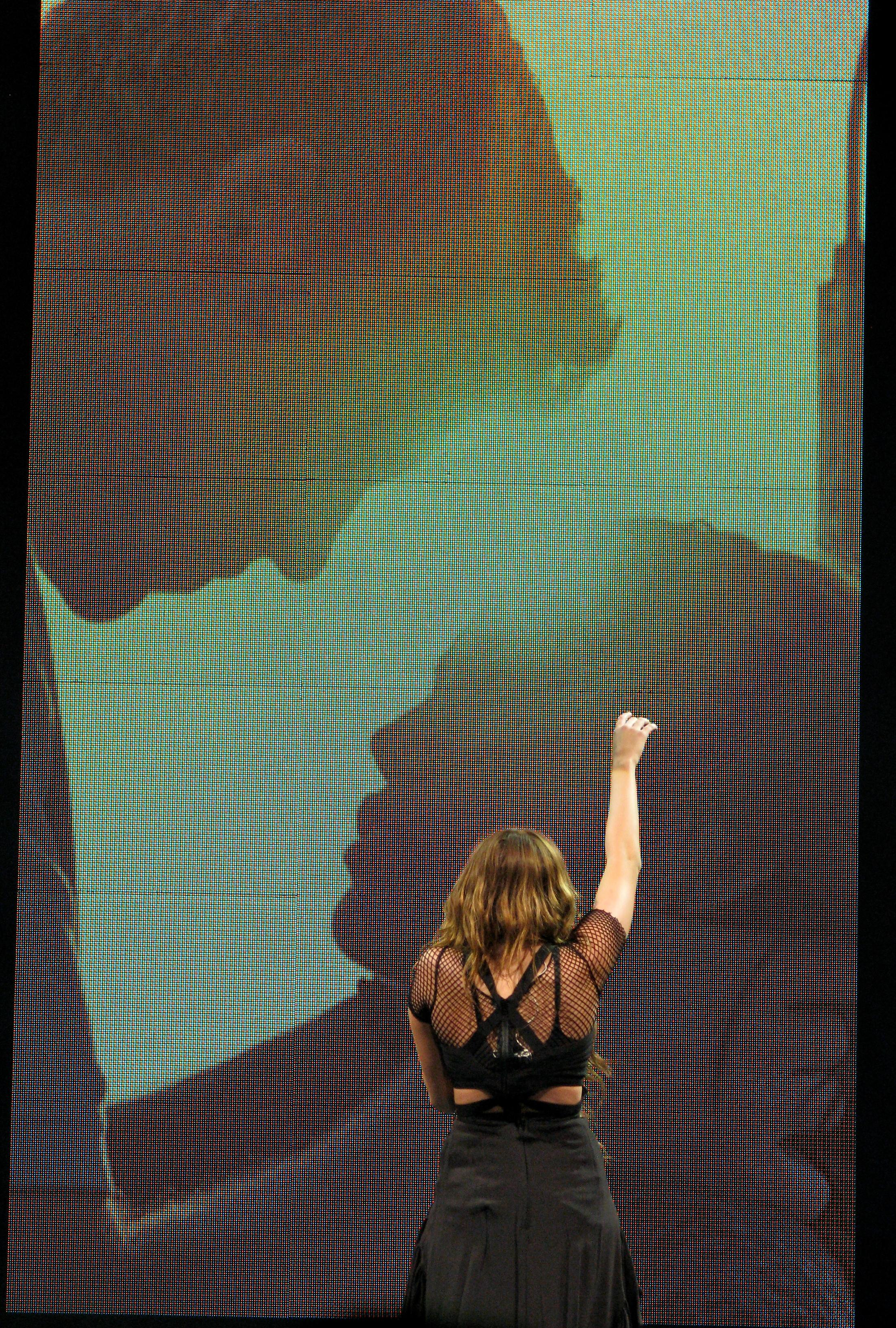 Miley Cyrus performs "When I Look at You" at the Portland, Oregon stop of her 2009 Wonder World Tour. In the background is a frame of a scene from the trailer for the 2010 The Last Song.